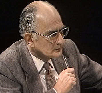 Jaap van Meekren